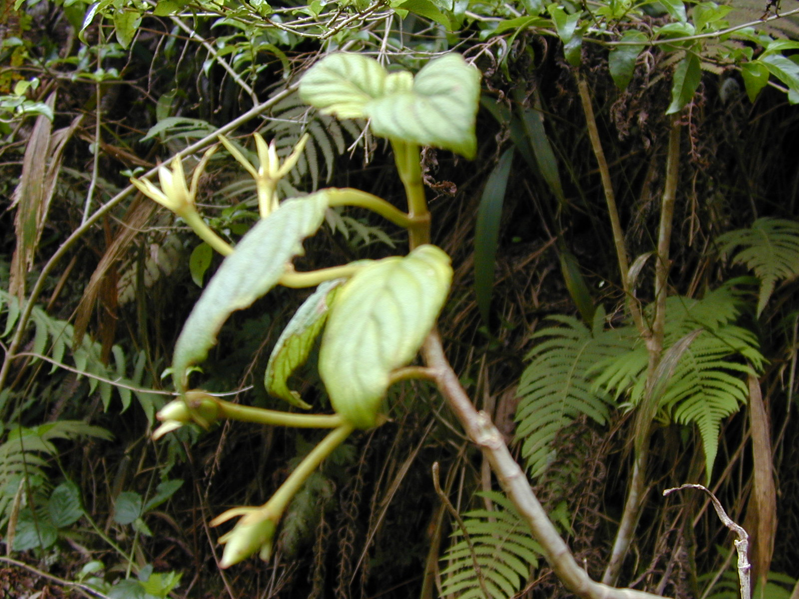 Cyrtandra platyphylla (leaves and flowers). Location: Maui, Makawao Forest Reserve